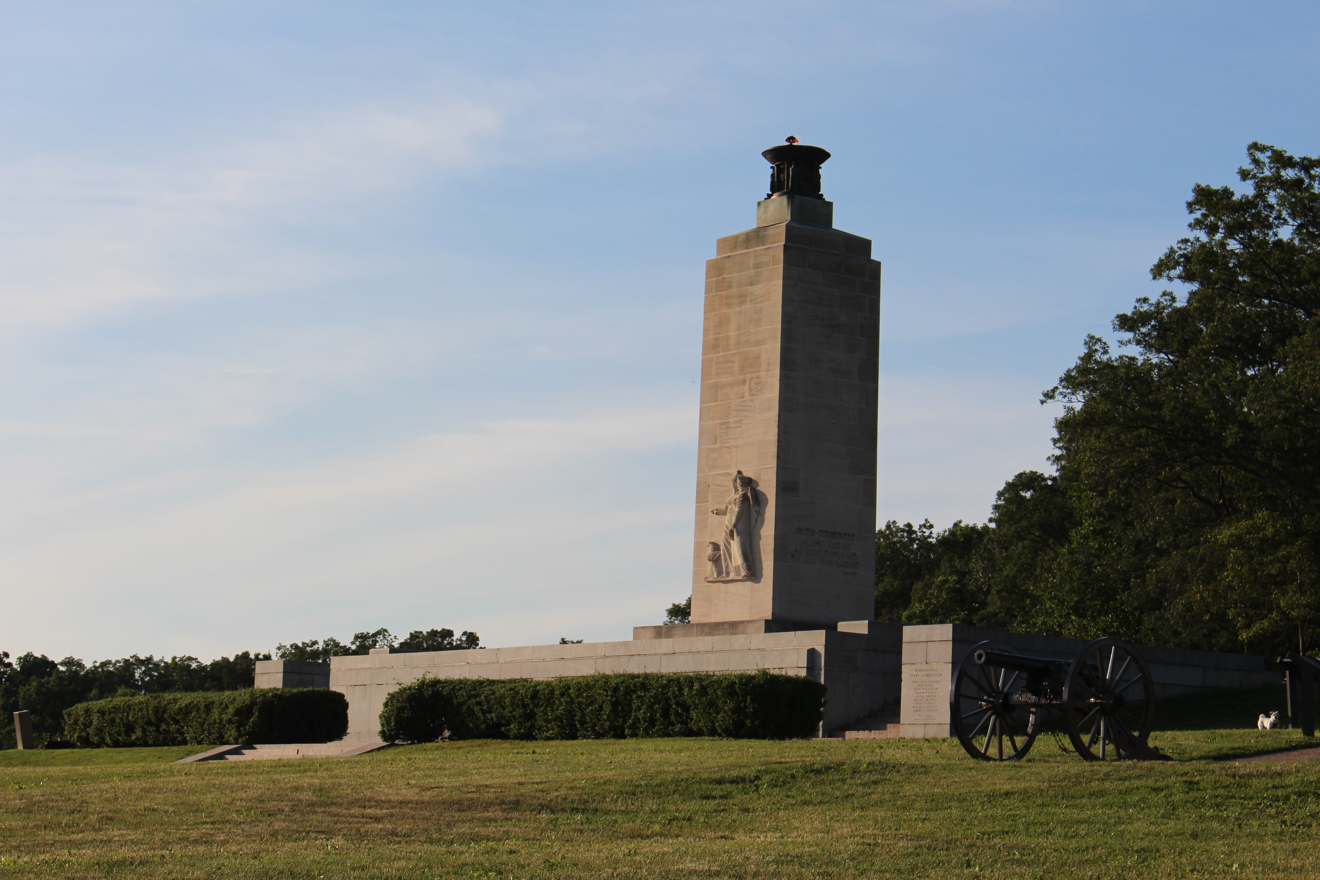 Eternal Light Peace Memorial, Gettysburg National Military Park